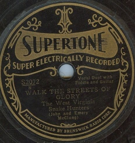 Walk the Streets of Glory by the West Virginia Snake Hunters, Supertone 1927.